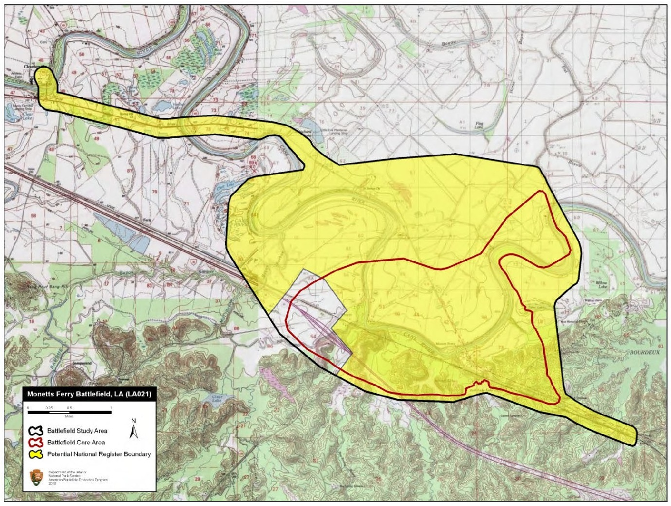 Map of battlefield core and study areas. The ABPP expanded the 1993 Study Area in three places: northwest to the Federal camps in Cloutierville from which the Federals marched on the morning of April 23 under pressure from the Confederates; southeast along the Federal route of advance towards Alexandria after Banks’s forces had broken through Bee’s cavalry; and in the location of the Federal flanking movement over the upper ford of the Cane River. The Core Area was extended to include the full range of fire delivered by Confederate and Union artillery pieces and the Federal cavalry engagement northeast of the main action.